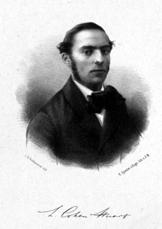 Cohen-Stuart, Lewis (1827-1878)